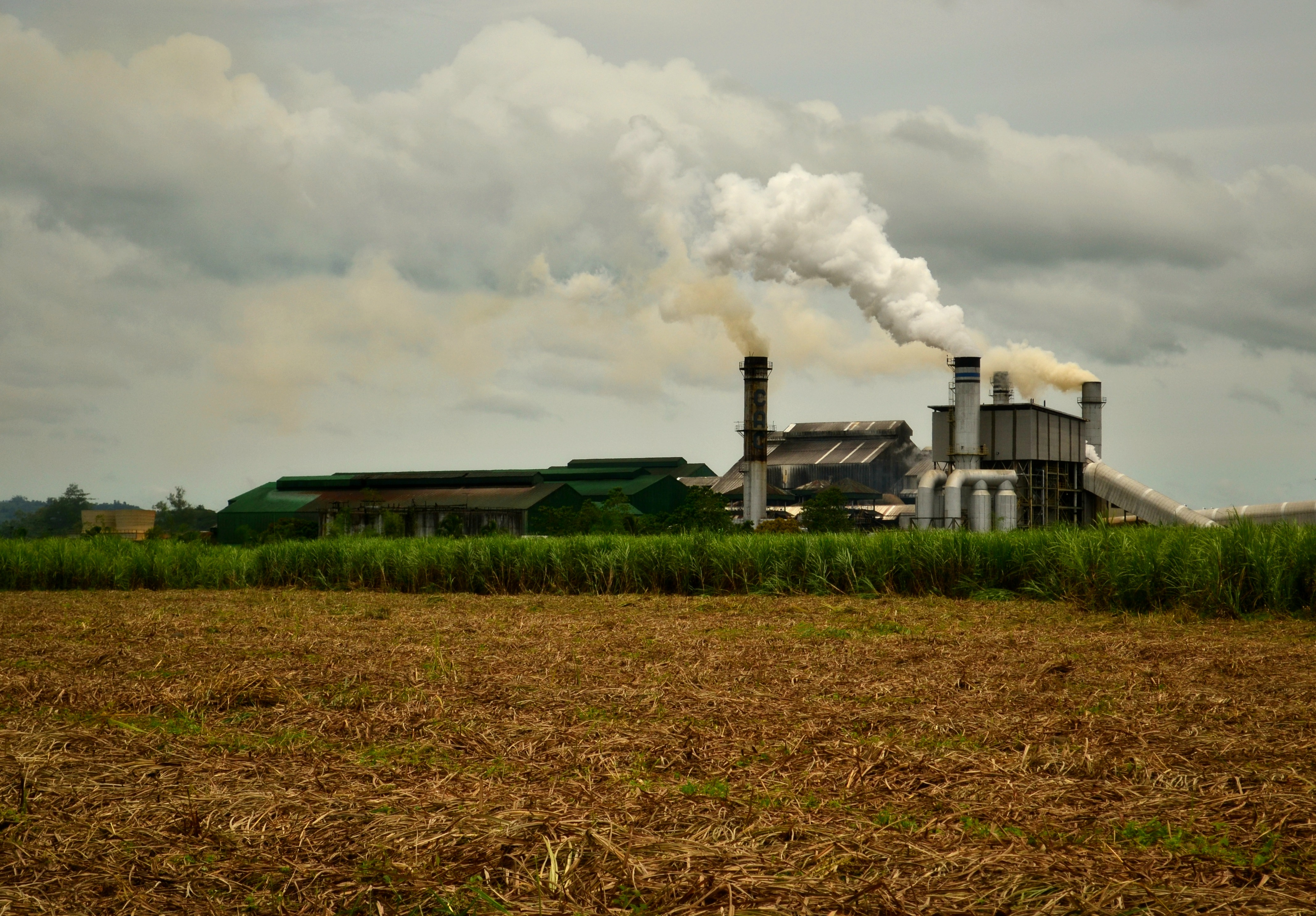 This Central is still operational and it is located at Bgry. RSV, La Carlota.